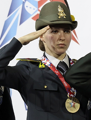 ВИВИАНИ ЕЛЕНА (Италия). Шорт-трек, смешанная эстафета, 3000м. III Зимние Всемирные Военные Игры. Ледовый дворец «Айсберг», Сочи, Россия. 26 февраля 2017. VIVIANI ELENA (Italy). Short Track Speed Skating, Mixed Relay, 3000m. 3rd CISM World Winter Games. Iceberg Winter Sport Palace, Sochi, Russian Federation. February 26, 2017.